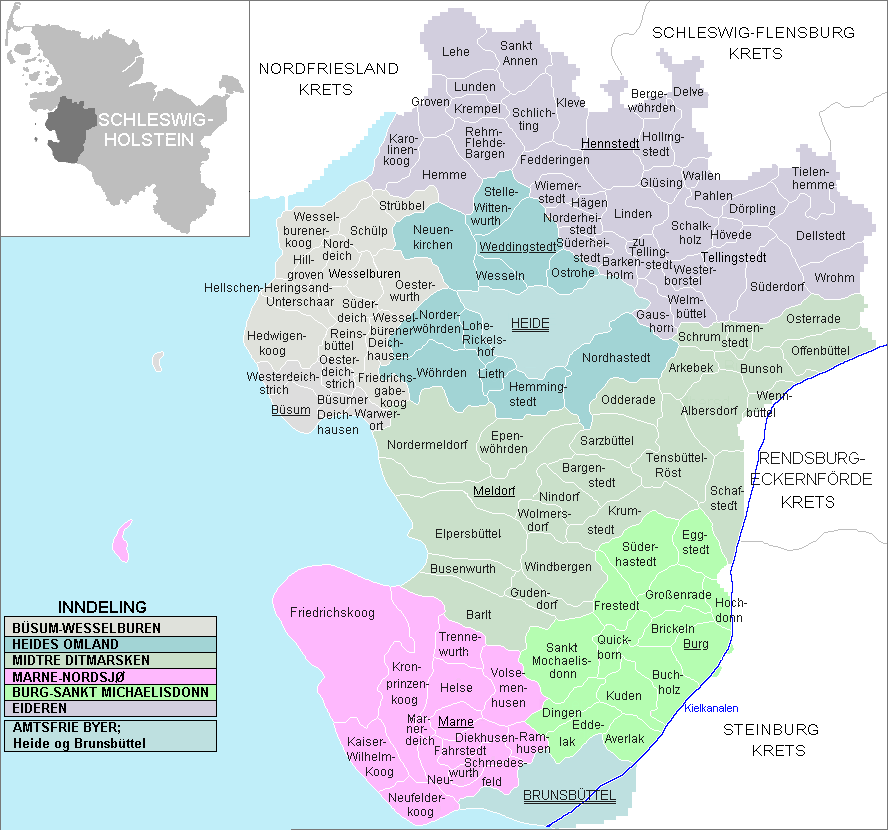 A Norwegian version of the overview map made by Geograv. The map is made to fit the new borders that will be set in 2008